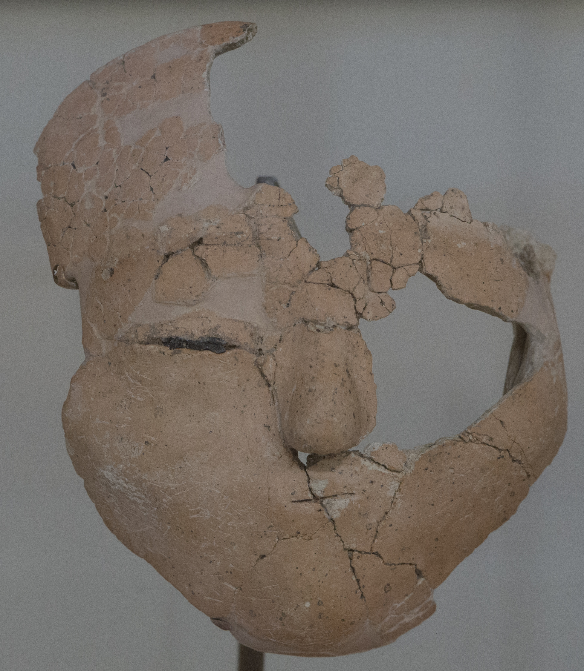 (One of) Three plaster faces modeled on human skulls. These were buried as a group, decorated skulls may point to an ancestor-cult. Found at Ain Ghazl – Amman, 1985. Pre-pottery Neolithic, 6500 BC